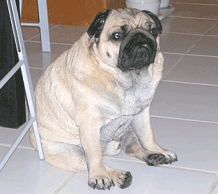 Peabo the pug, 2006, taken by owner